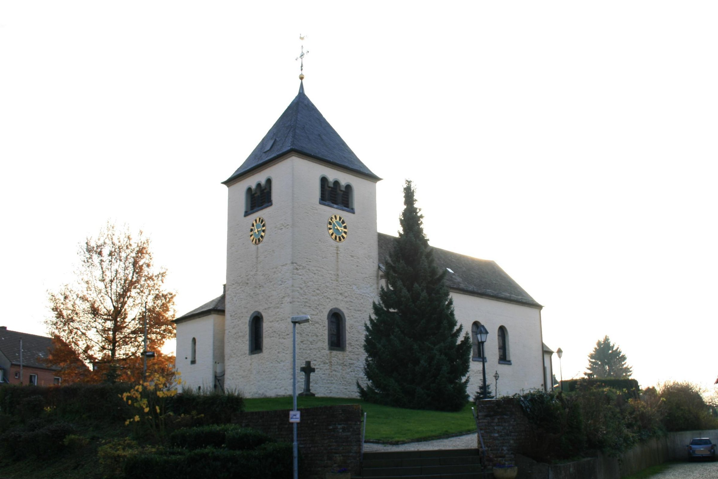 Cultural heritage monument No. 18 in Aldenhoven